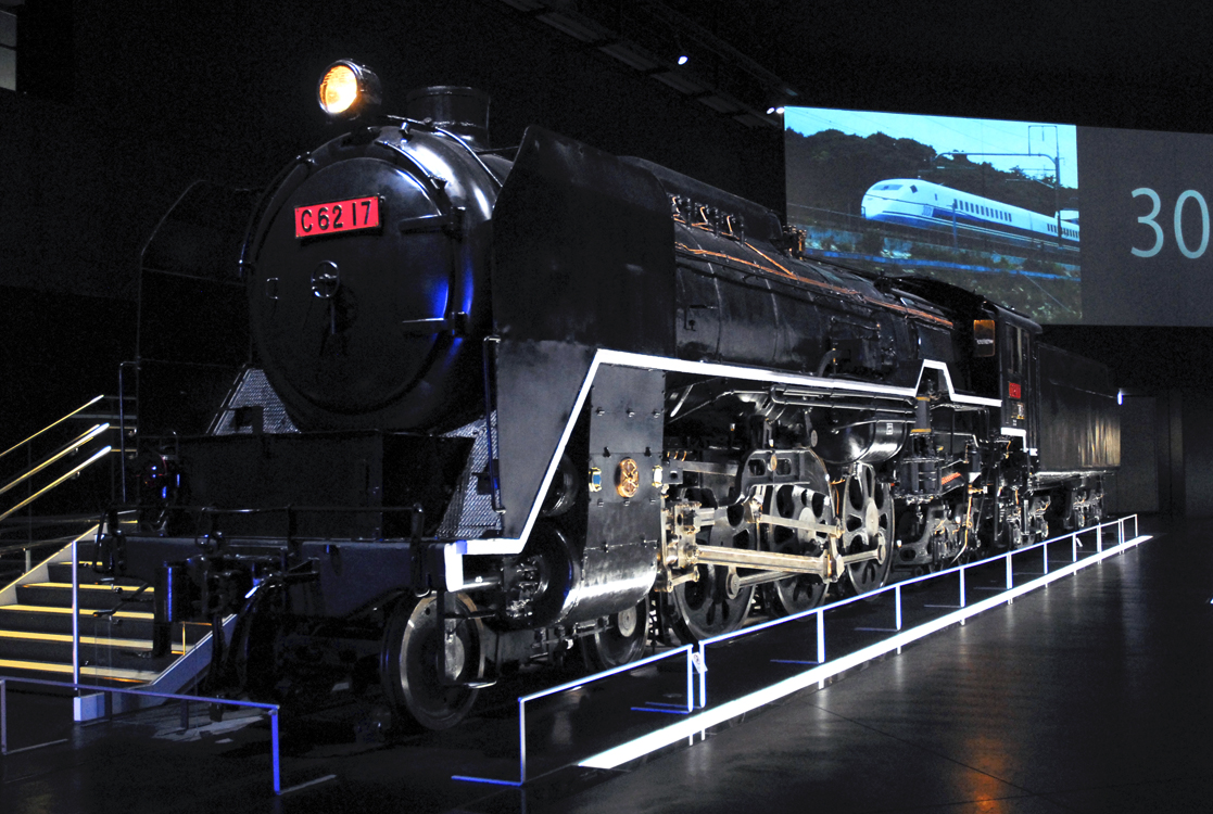 C62 17: On display at the SCMaglev and Railway Park in Nagoya